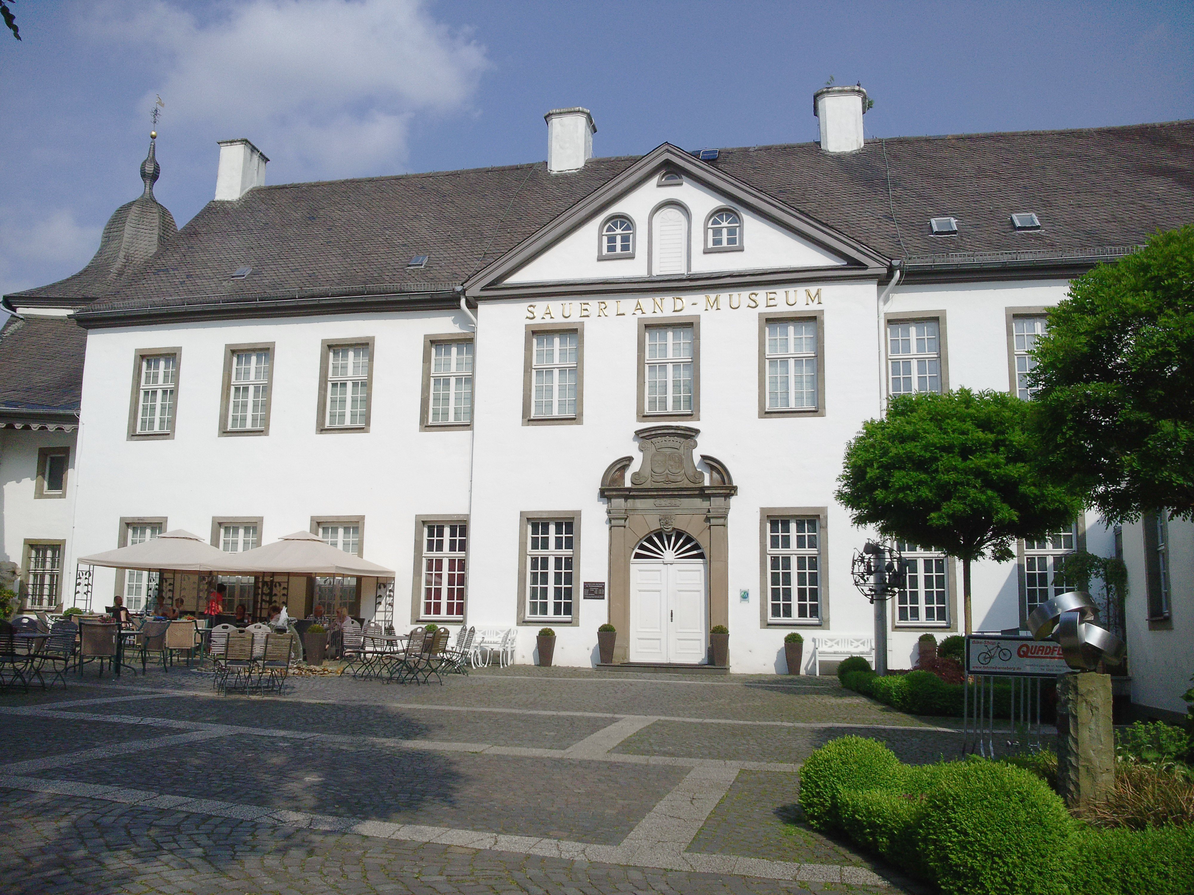 Sauerland museum in Arnsberg, Germany